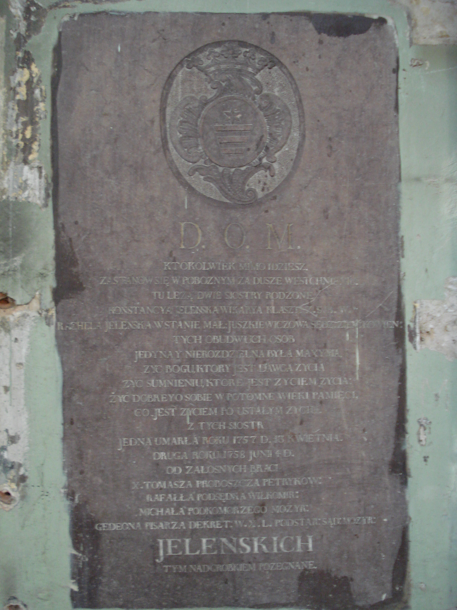 The epitaph of Jelenski sisters (died 1757 and 1758) in the Greek Catholic Church of Holy Trinity in Vilnius